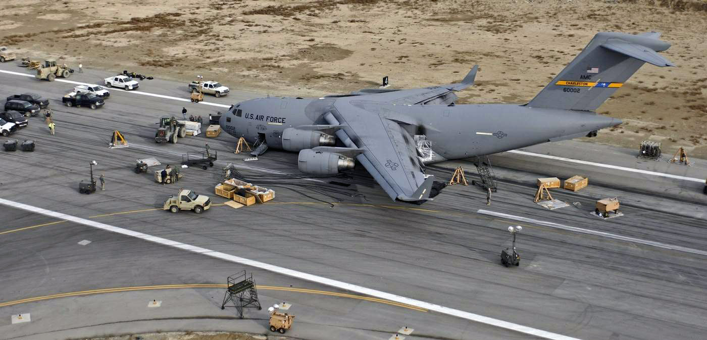 Crash recovery and emergency management crews survey a C-17 Globemaster III Jan. 31 as it rests on the active runway of Bagram Airfield, Afghanistan, after landing Jan. 30 with its landing gear retracted. More than 120 Airmen, Defense Department civilians and contractors successfully removed the crippled aircraft from the runway Feb. 2 and restored full airfield operations shortly thereafter. The "belly up," or no landing gear, recovery effort was the first in the airframe's 16-year Air Force history.